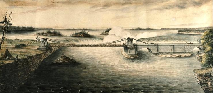 Print, Union Suspension Bridge, Ottawa River, Bytown Preston Frederick Rubidge, 1843, Ink and watercolour on paper - Lithography - 30.3 x 66.2 cm